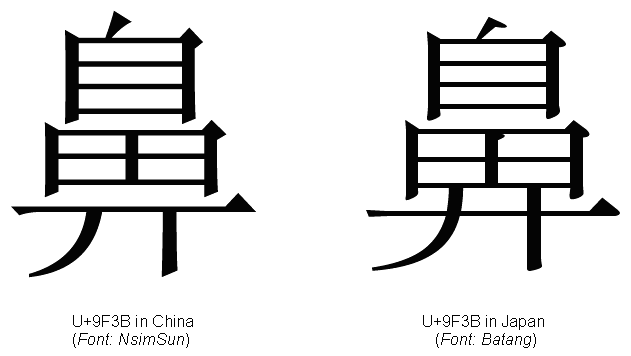 Chinese Radical 209 „鼻“ (nose) different fonts